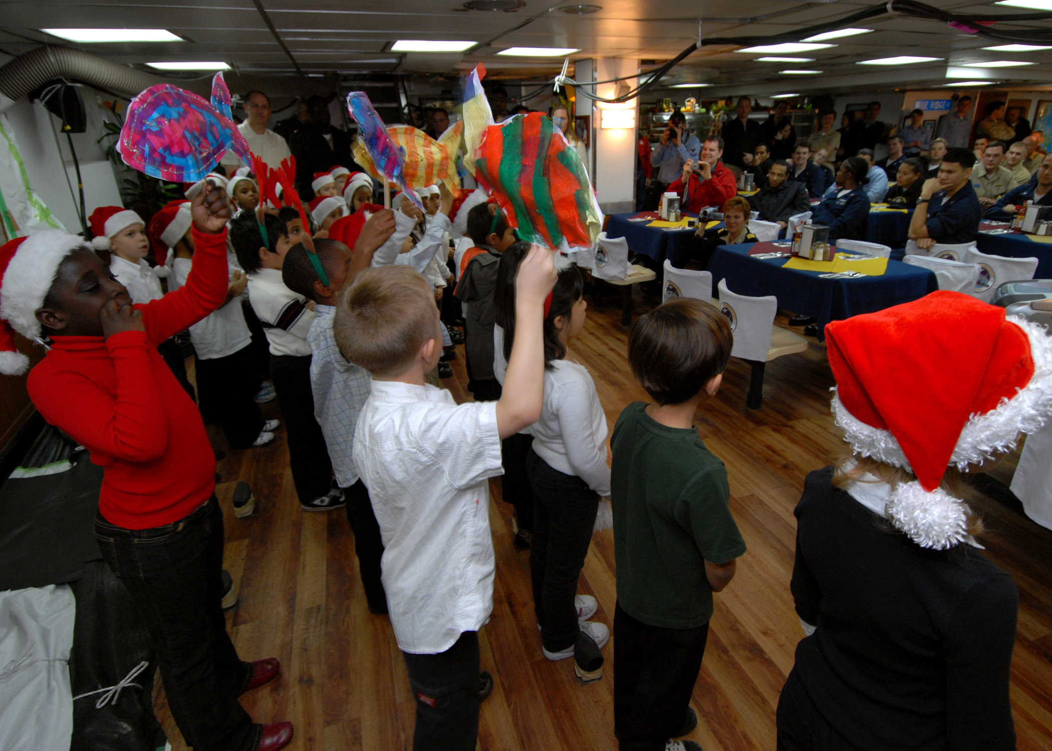 YOKOSUKA, Japan (Dec. 10, 2007) Students from Ikego Elementary School's Spanish-immersion first and second grade classes visit the amphibious command ship USS Blue Ridge (LCC 19) and 7th Fleet Sailors to sing Spanish-influenced Christmas Carols on the mess decks. Blue Ridge is the flagship for Commander, U.S. 7th Fleet. Task Force 76 is headquartered at White Beach Naval Facility, Okinawa, Japan, with an operating detachment is Sasebo, Japan. U.S. Navy photo by Mass Communication Specialist 3rd Class Charles T. Green (Released)